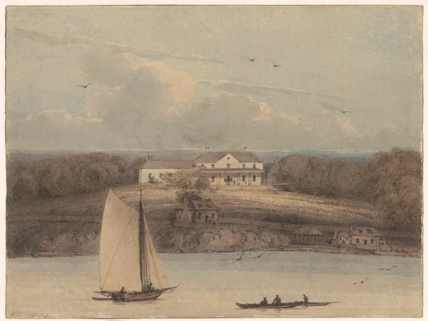 Sydney: Government House, an 1802 watercolour painting by William Westall, depicting what was then Sydney's Government House. The building has since been relocated and is now Old Government House, Parramatta.